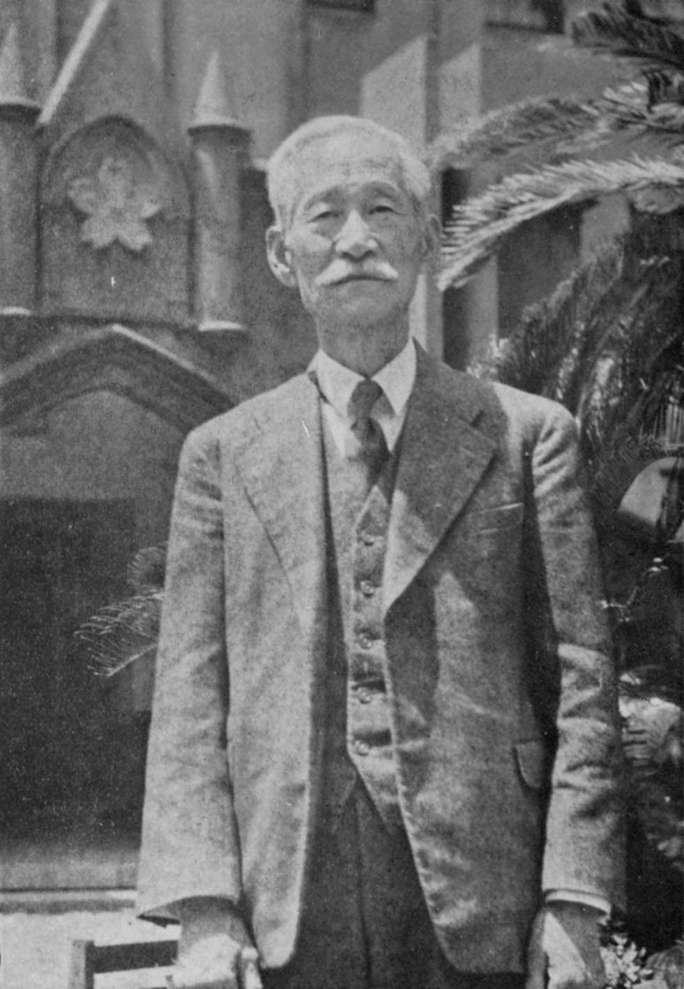 Portrait of Tetsuto Uno.